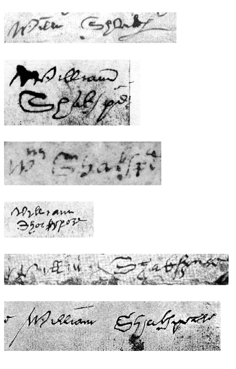 The six known signatures of William Shakespeare, labelled with origins